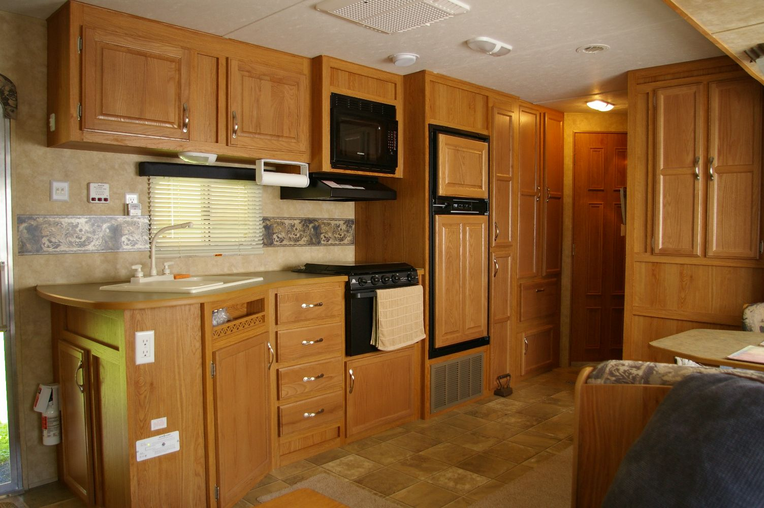 Jayco slide out kitchen area